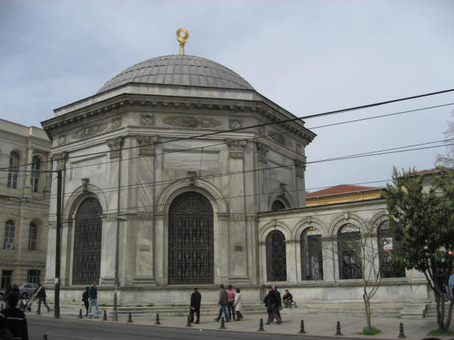 The mausoleum (türbe) of Sultan Mahmud II (1785-1839), Sultan Abdülaziz (1830-1876) and Sultan Abdülhamid II (1842-1918), located at Divan Yolu street.